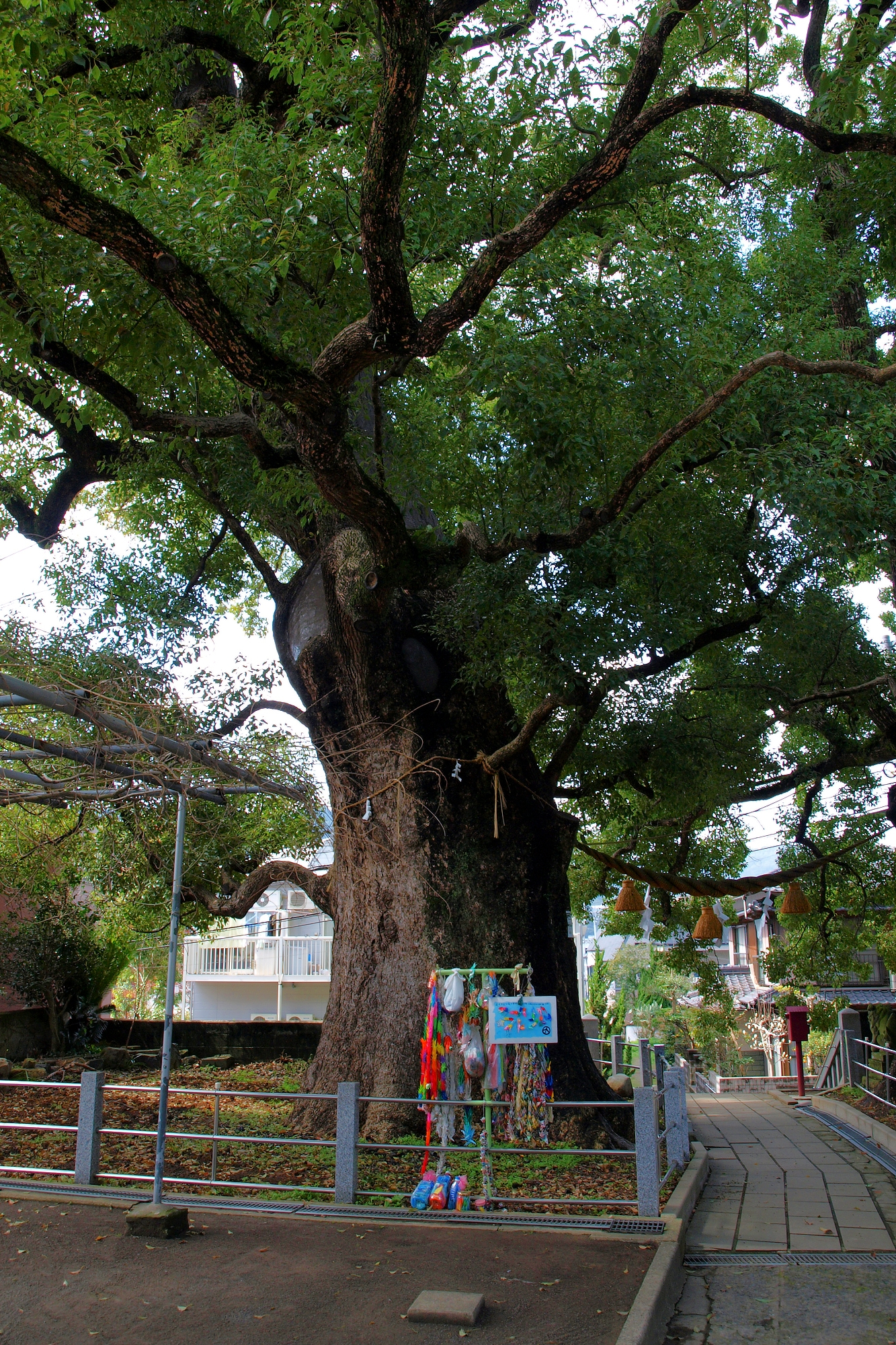 The camphor tree which were denuded by the atomic blast in 1945.